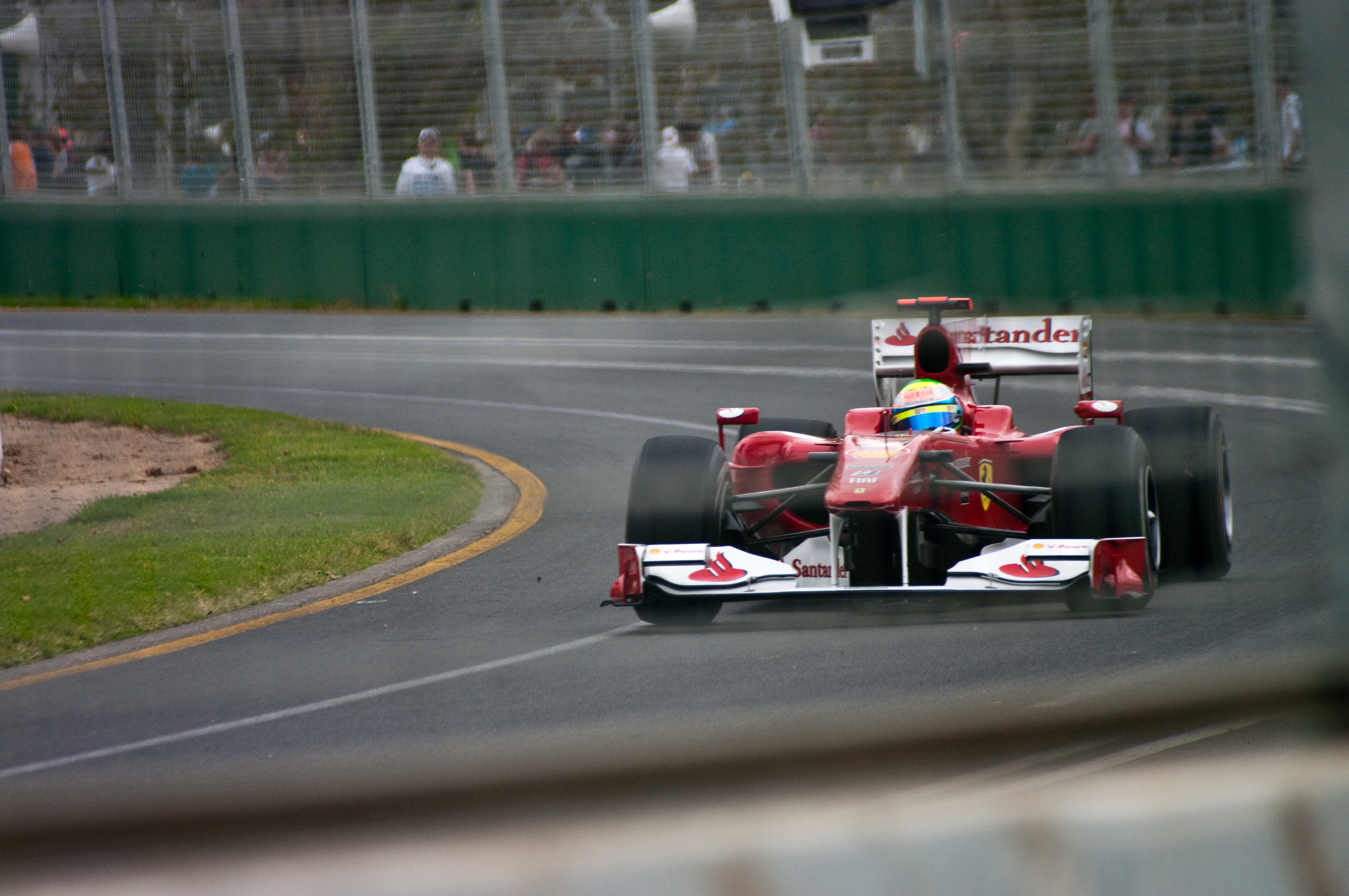 Felipe Massa driving for Scuderia Ferrari at the 2010 Australian Grand Prix.